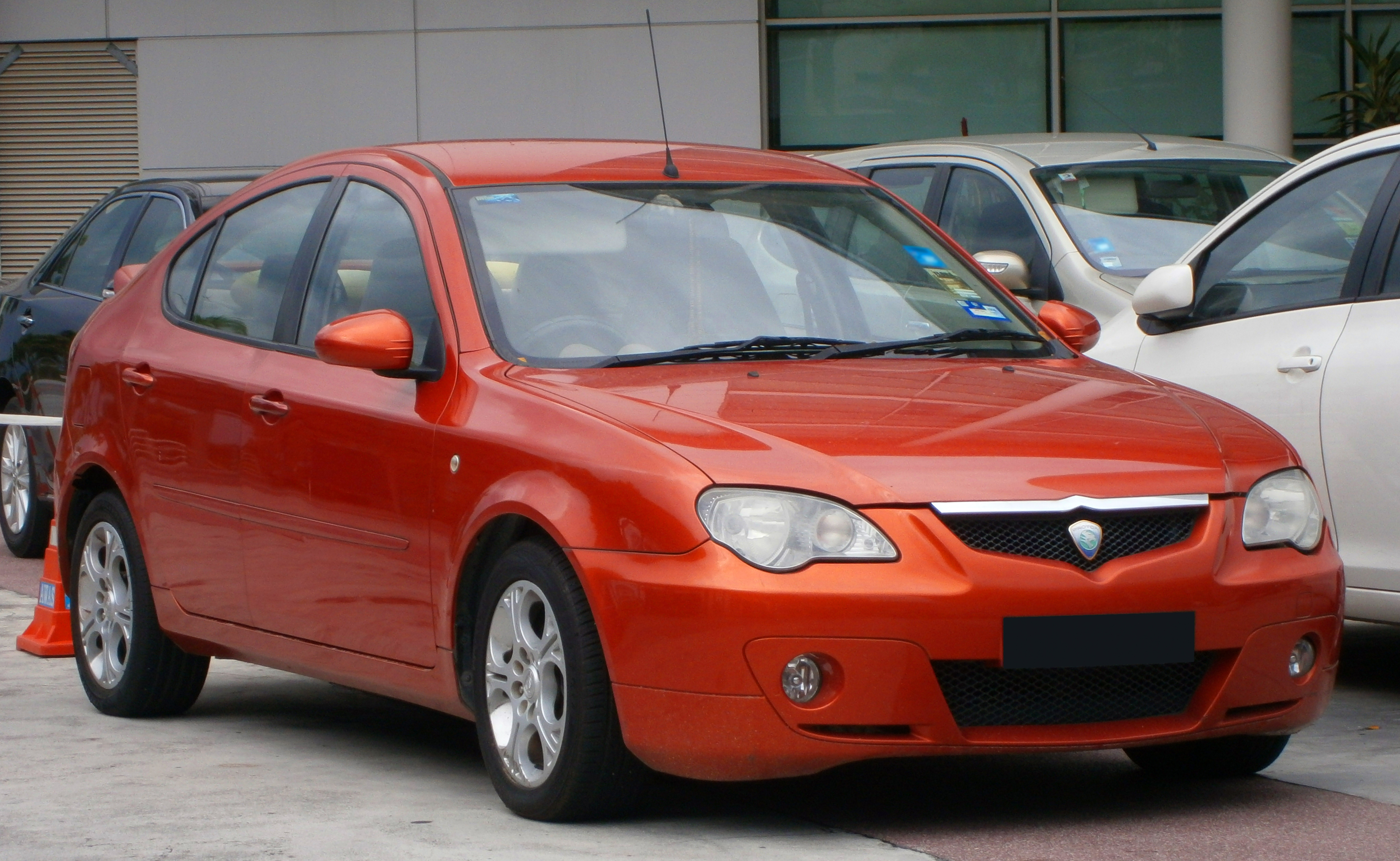 2005 Proton Gen-2 1.6 in Cyberjaya, Malaysia. Designed & Assembled in Malaysia